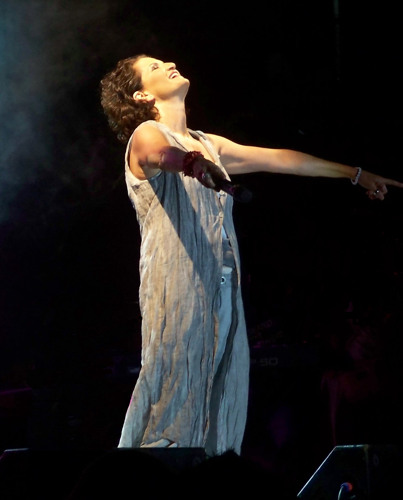 Popular greek singer Alkistis Protopsalti performing live.